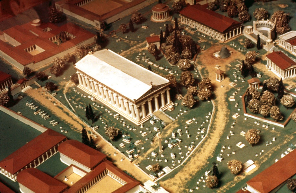 Model of ancient Olympia. Former attribution as Model of the Acropolis of Athens, Greece. This attribution is definitely wrong. It's definitely a model of ancient Olympia. It was exhibited in the Ancient Acropolis Museum. Photo taken in 1978. Compare: Plan of ancient Olympia